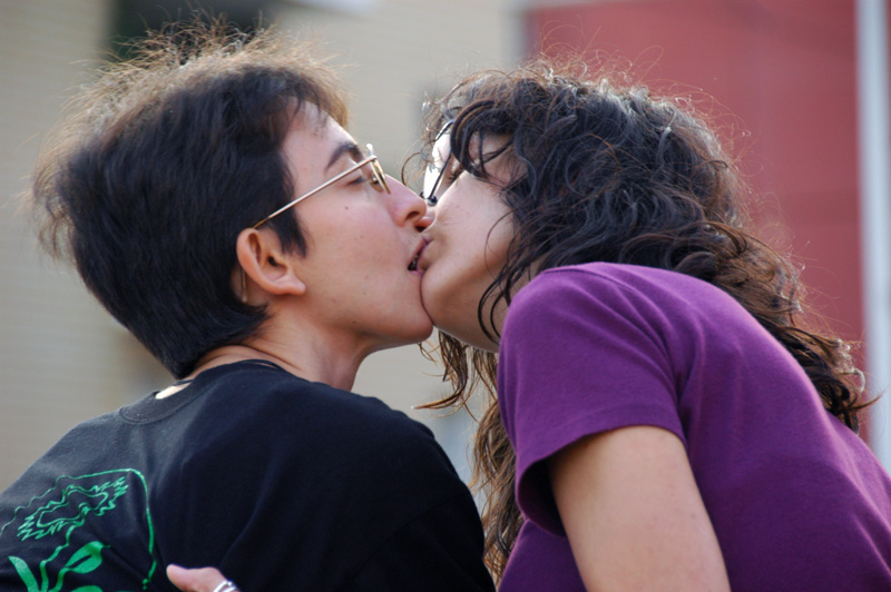 Kissing during The Dancehouse Theatre "Kiss bike Kiss" at the Manchester Bike Culture Festival 28 March 2008 to 25 April 2008.